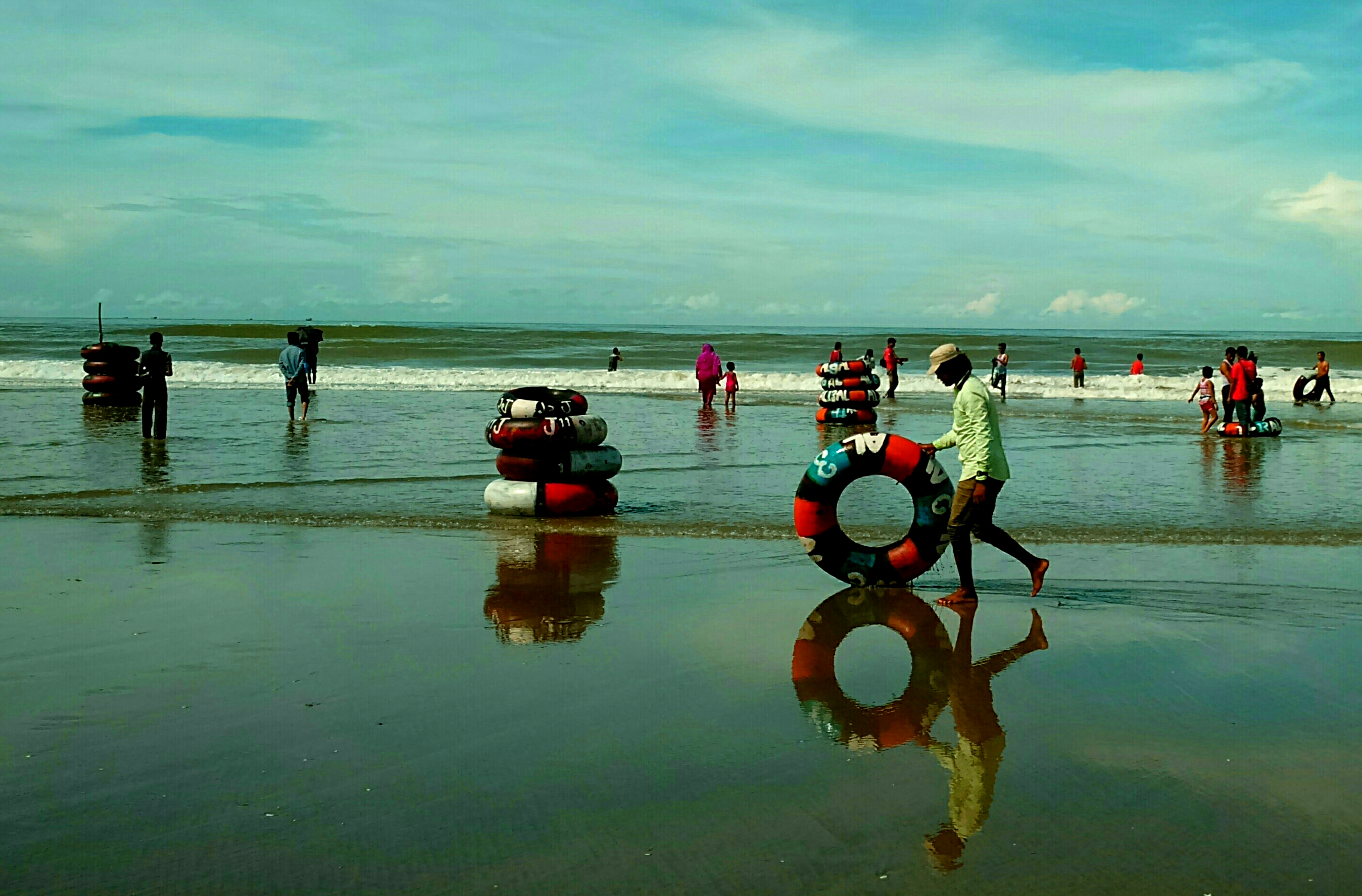 Cox's Bazaar, longest sea beach in the world.